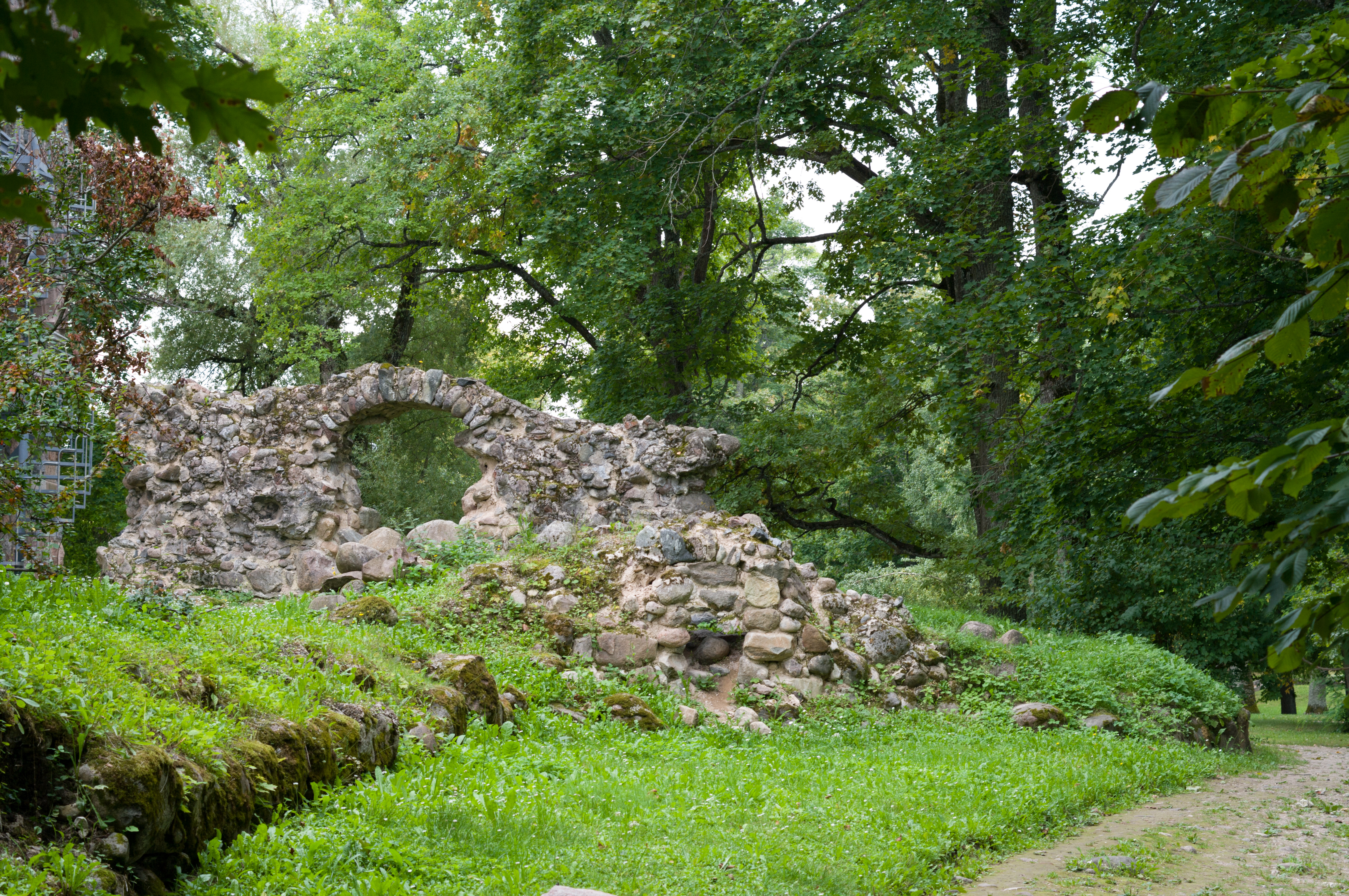 This photo was taken during a Wikiexpedition set up by Wikimedia Eesti. You can see all photographs in category WMEE-LV2013.